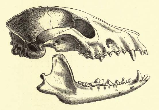 An illustration of a raccoon dog skull